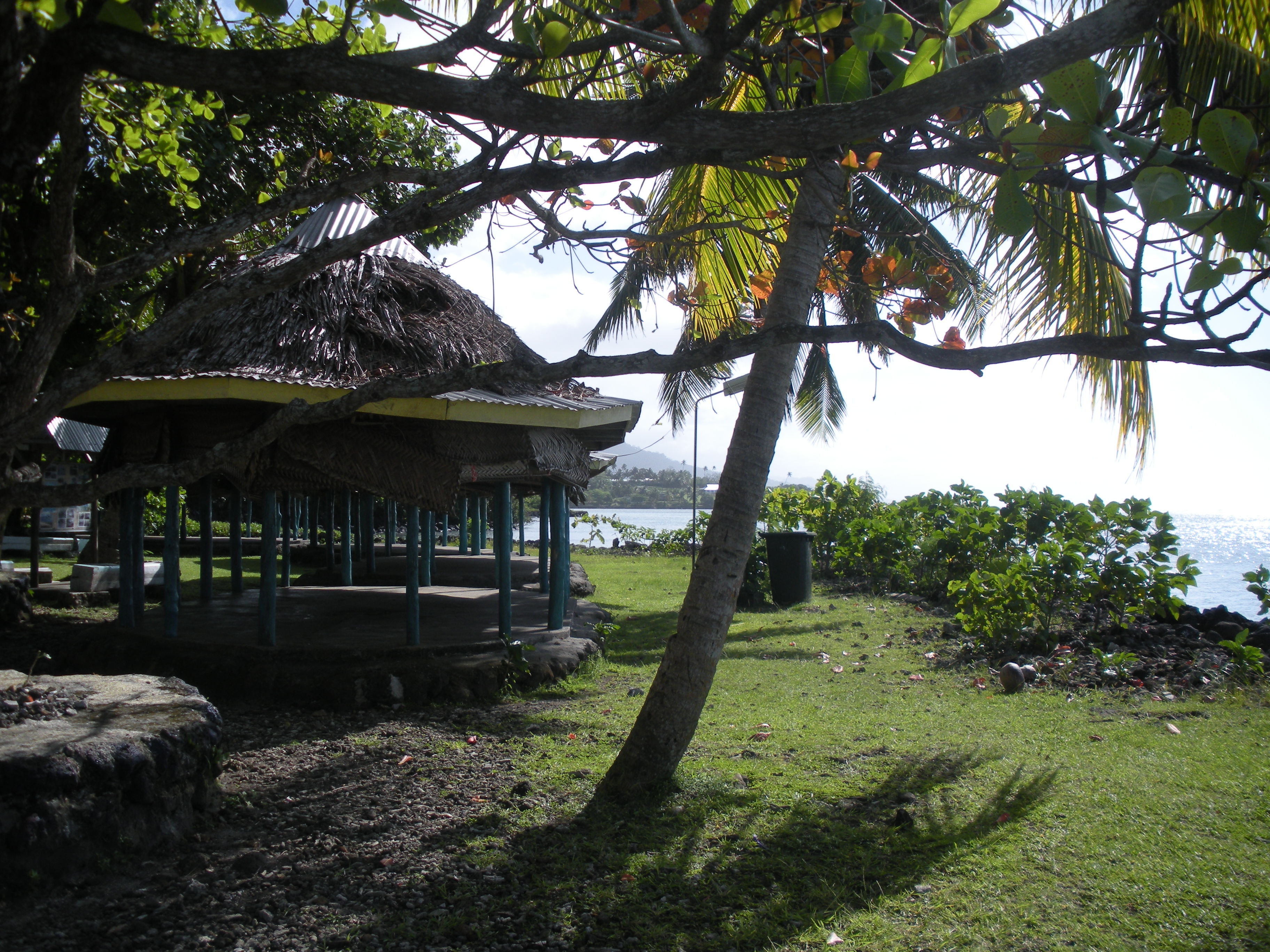 Small Samoan fale for visitors by the sea at Piula Cave pool, northeast coast Upolu island, Samoa.